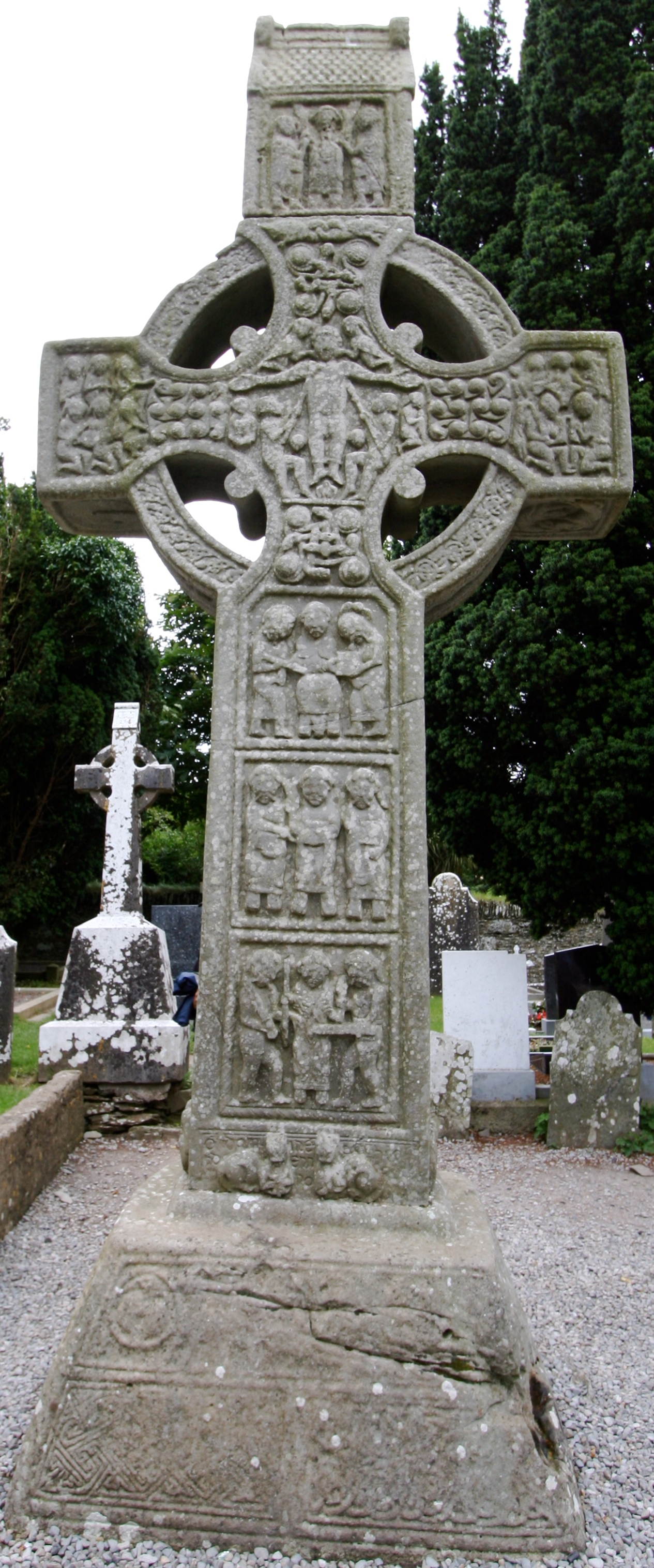 Photograph of the east face of Muiredach's High Cross.